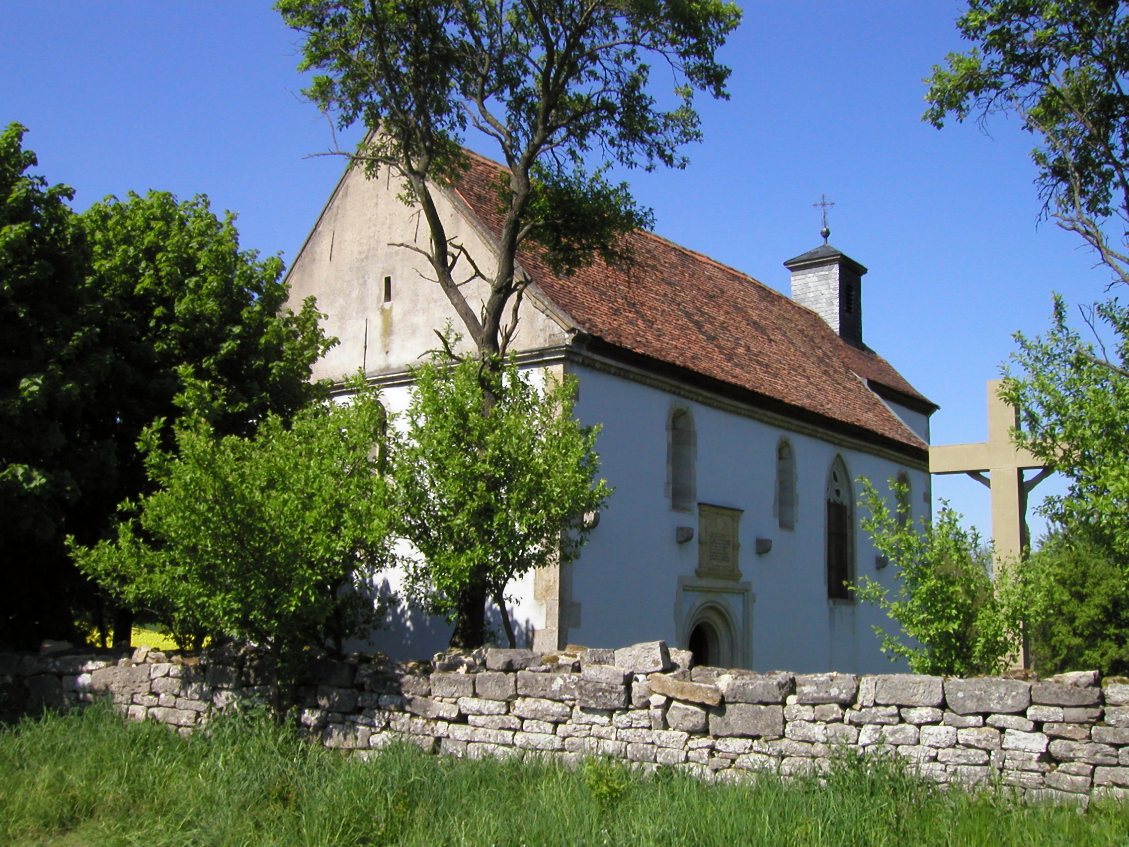 The Chapel of the Holy Kunigunde with the 1000 year old limetree